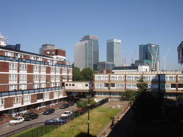 Pinnace House and Yarrow House with skyscrapers This picture features two of the blocks of the Samuda Estate, featuring the upper level created by the underground garages, with skyscrapers of the Canary Wharf complex in the distance.